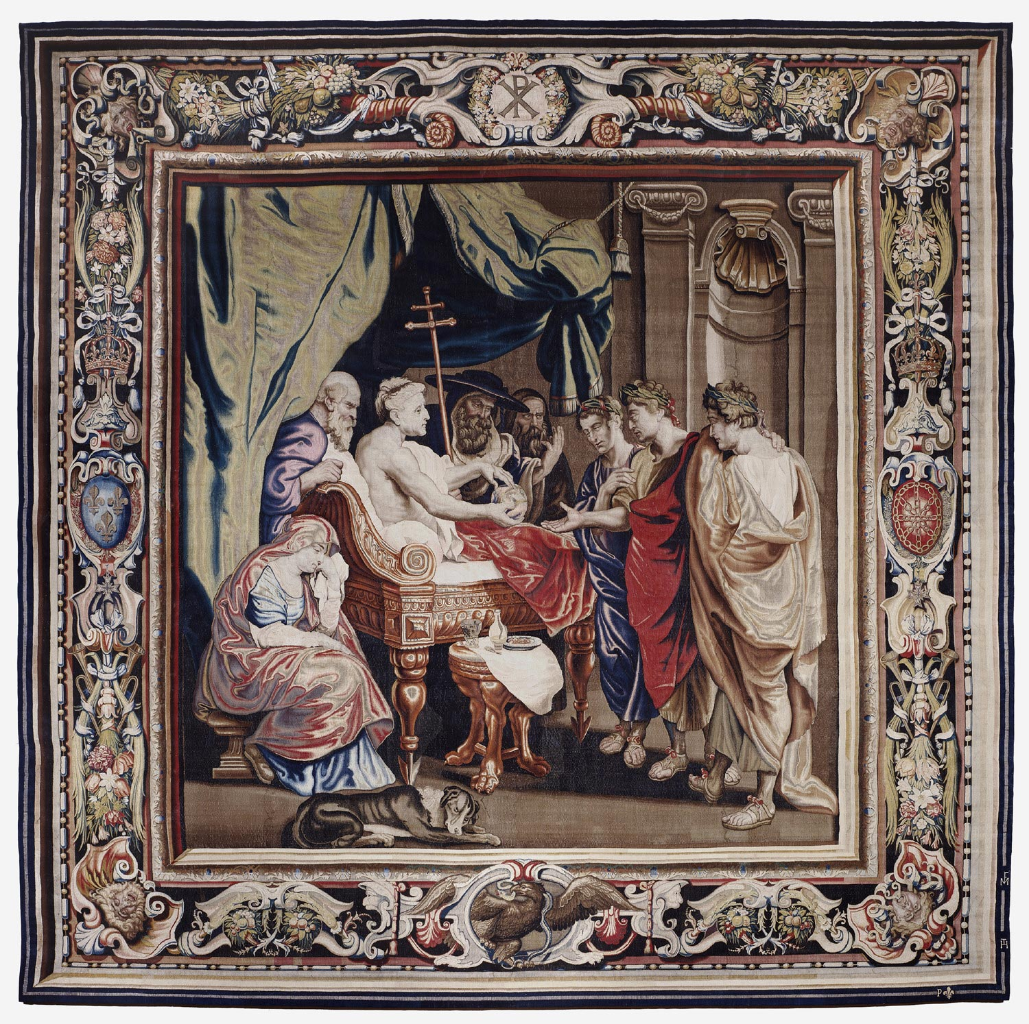 Death of Constantine. Tapestry (wool and silk with gold and silver threads) from the series "History of Constantine the Great". Philadelphia Museum of Art, United States. Great Stair Hall Balcony, second floor. ID 1959-78-5. Measurements: 489 x 497.8 cm.[1]